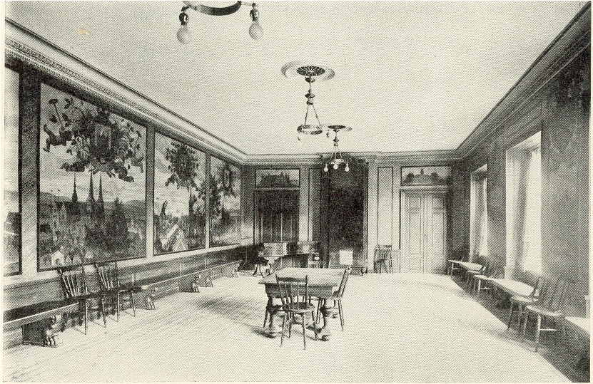 The nation hall at Västgöta nation, a student society at Uppsala University in Sweden.